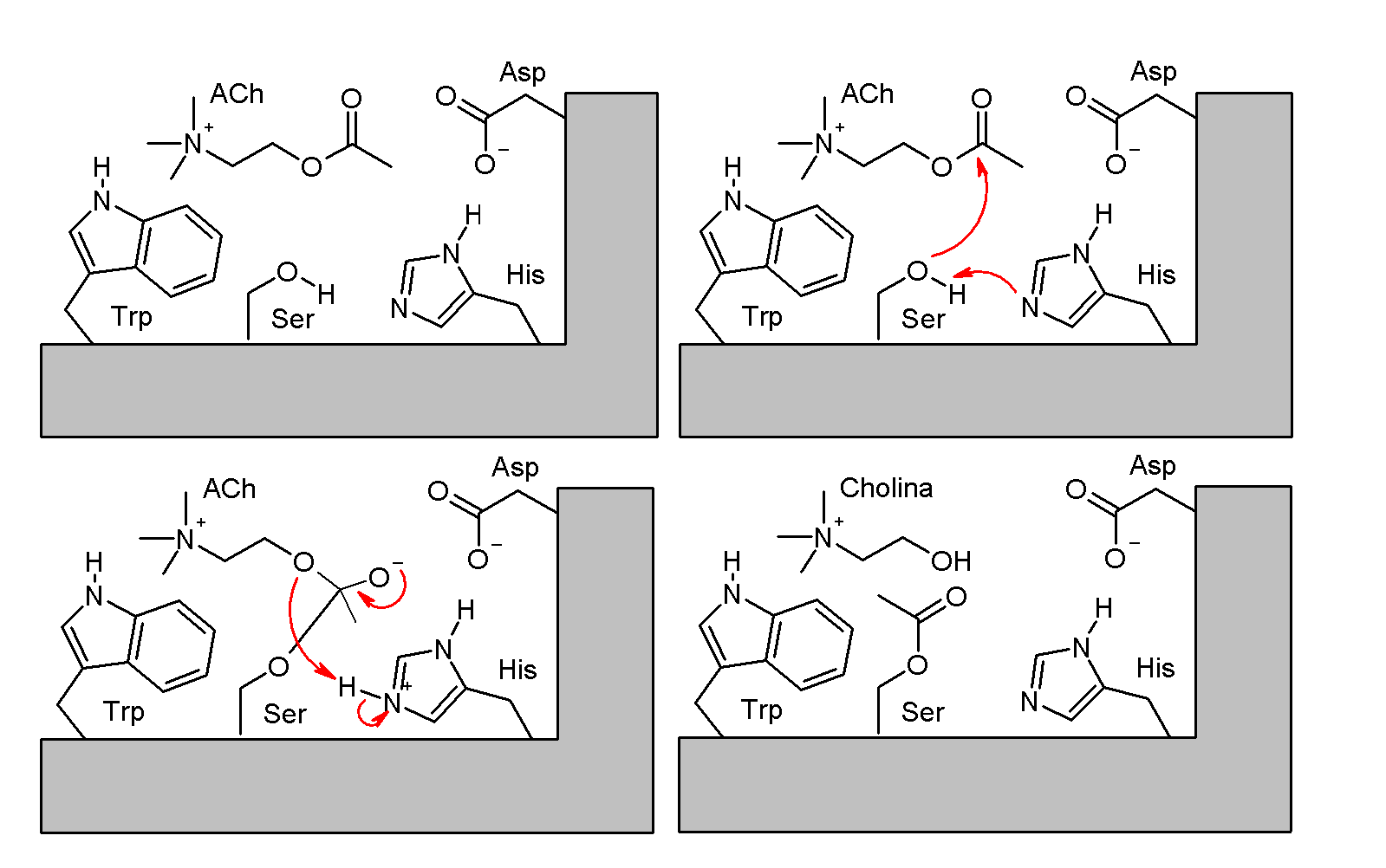 The mechanism of action of acetylcholinesterase